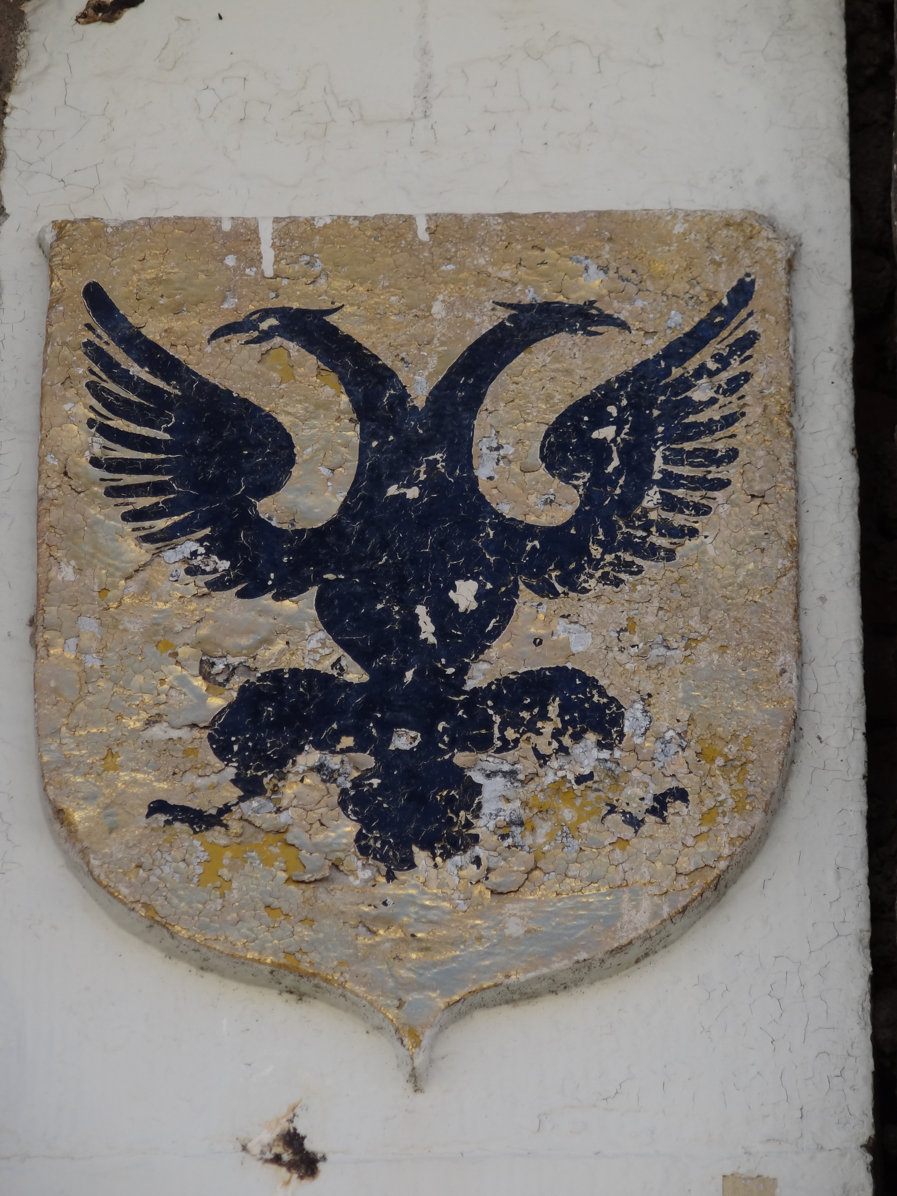 Symbols of the Netherlands